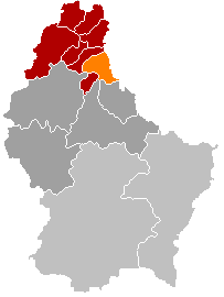 Hosingen municipality location (valid until 1 January 2012). Own edit of Kanton ClervauxLocatie.png